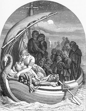 From Poems by Alfred Lord Tennyson.